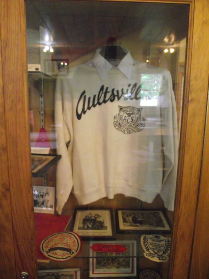 This image was taken at the Lost Villages Museum and is of a display case holding a sweater which was once given to alumni of a school located in Aultsville, Ontario.